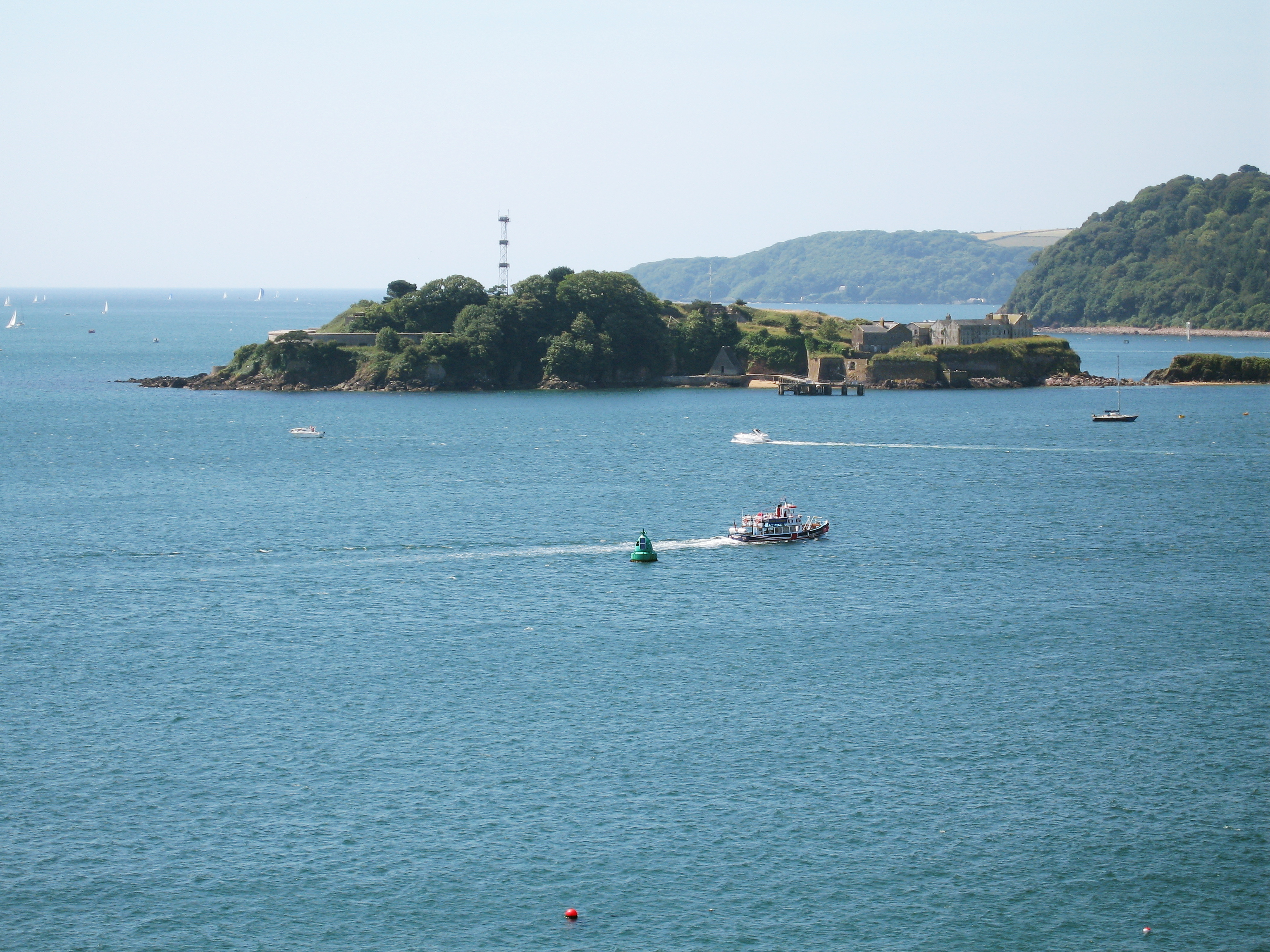 A high resolution photograph of Drakes Island in Plymouth Sound. Taken from Plymouth Hoe.